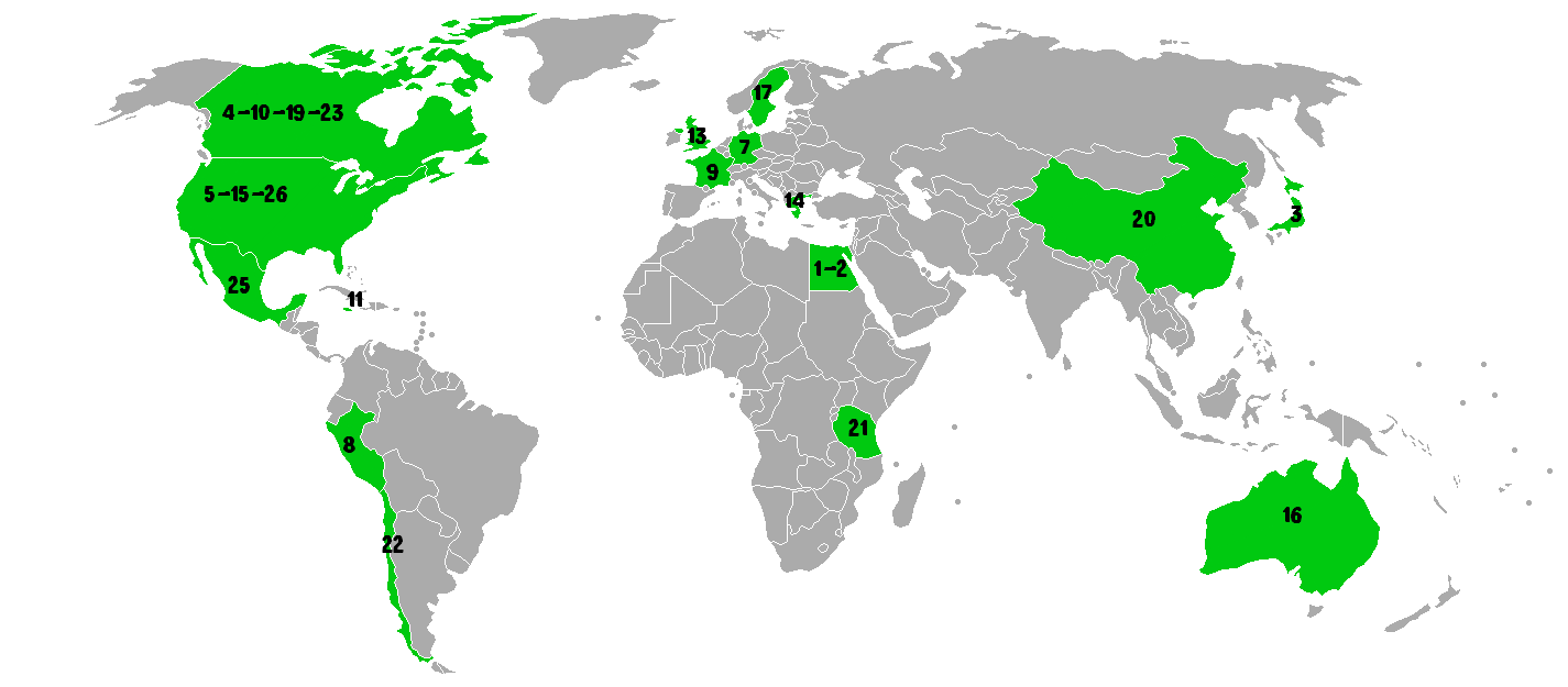 TDWT Visited Places